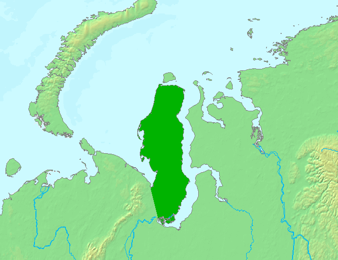 Global extent of the Yamal Peninsula relative to its surrounding area in Russia.